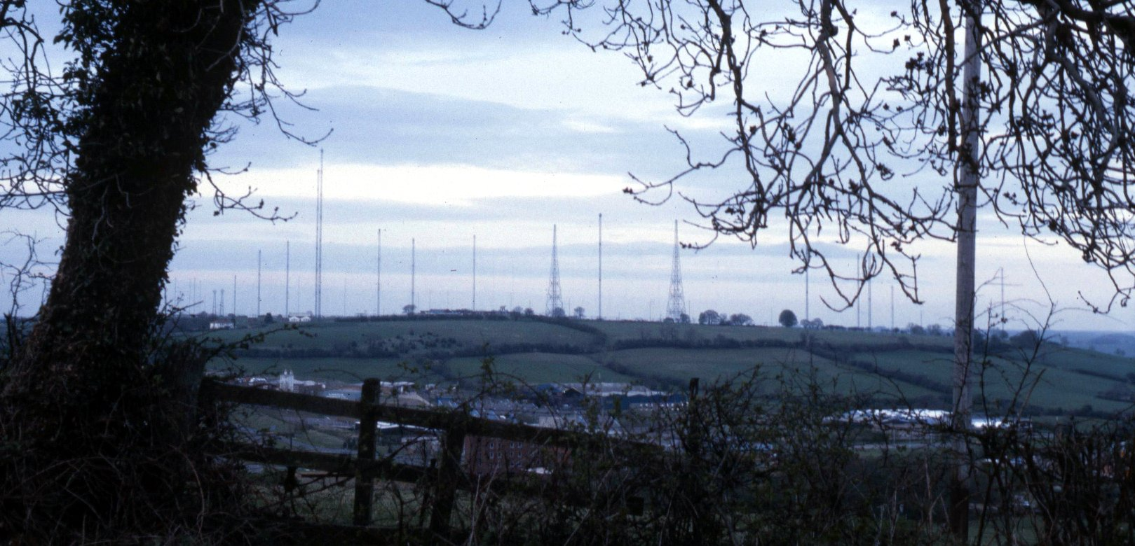 Daventry transmitting station masts and towers seen from south, circa 1990